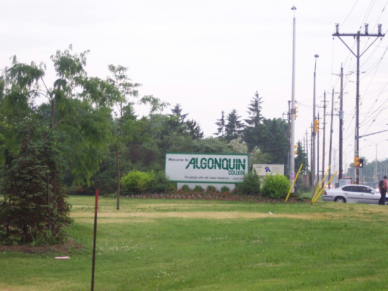 Algonquin College Sign, I took this picture myself.